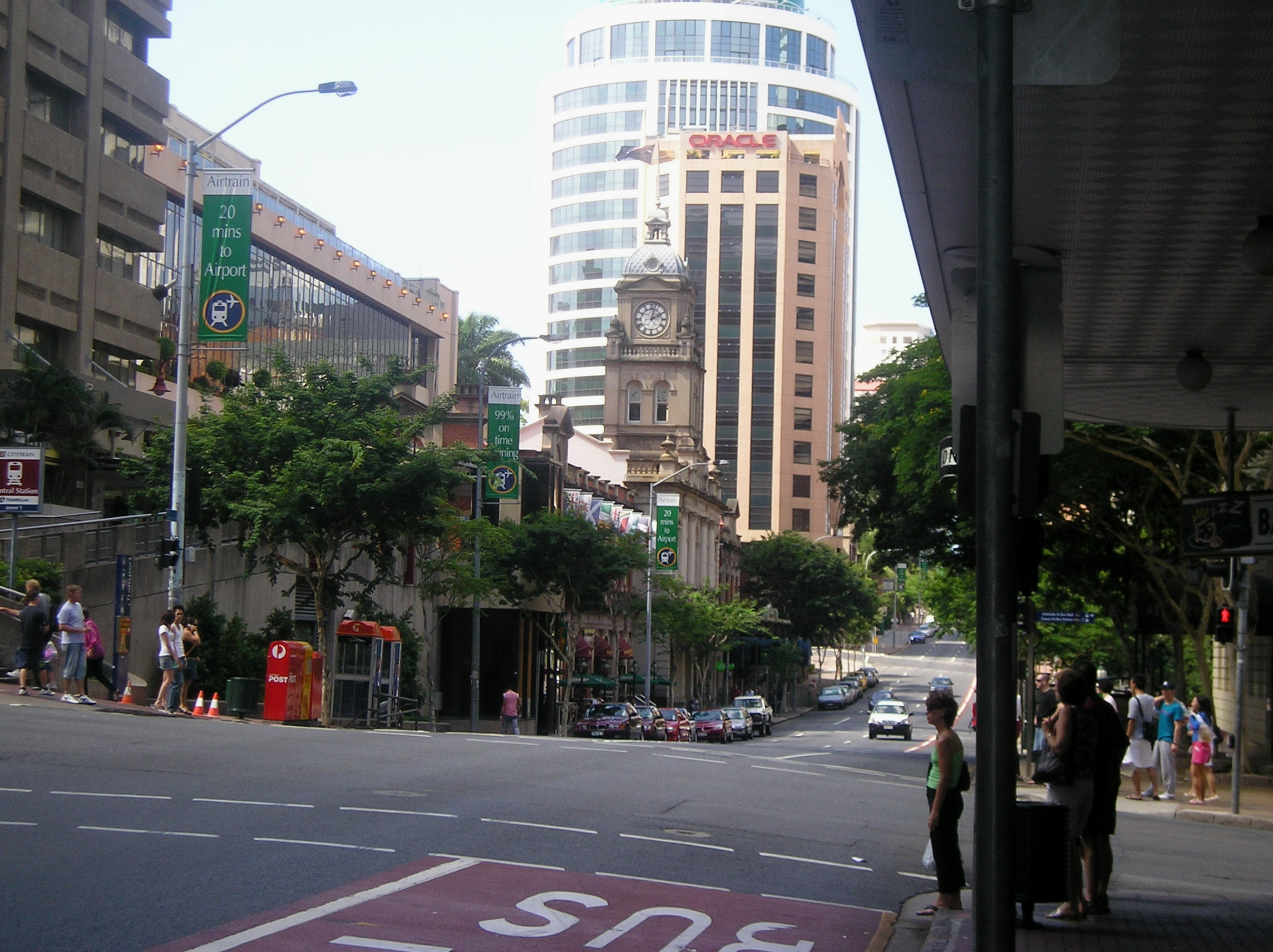 Central Station clocktower and the back of the Sheraton Hotel, taken from the opposite corner of Ann and Edward. (not the best image, I know. . .)